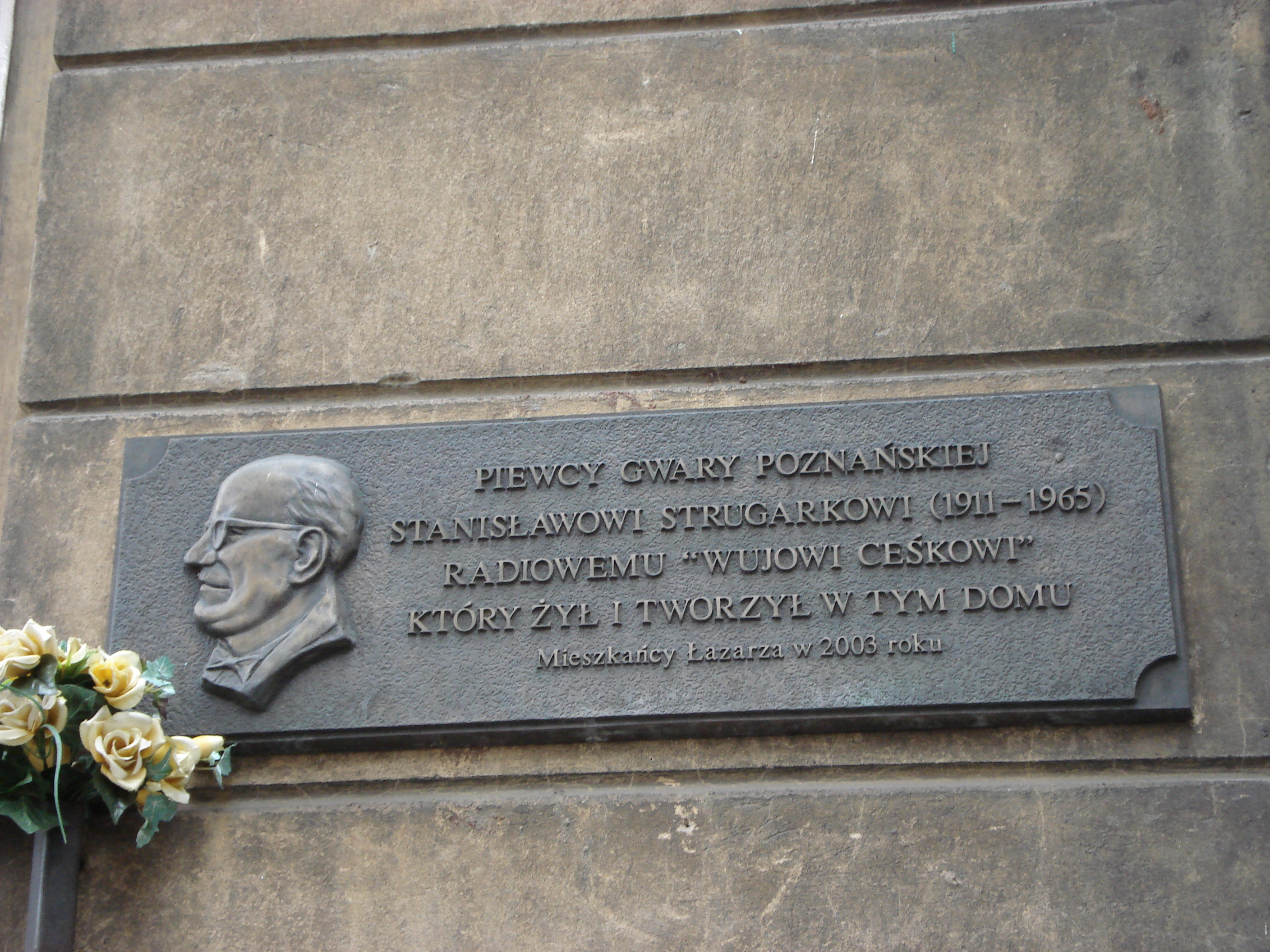 Memorial desk of Stanisław Strugarek in Poznań, 2003